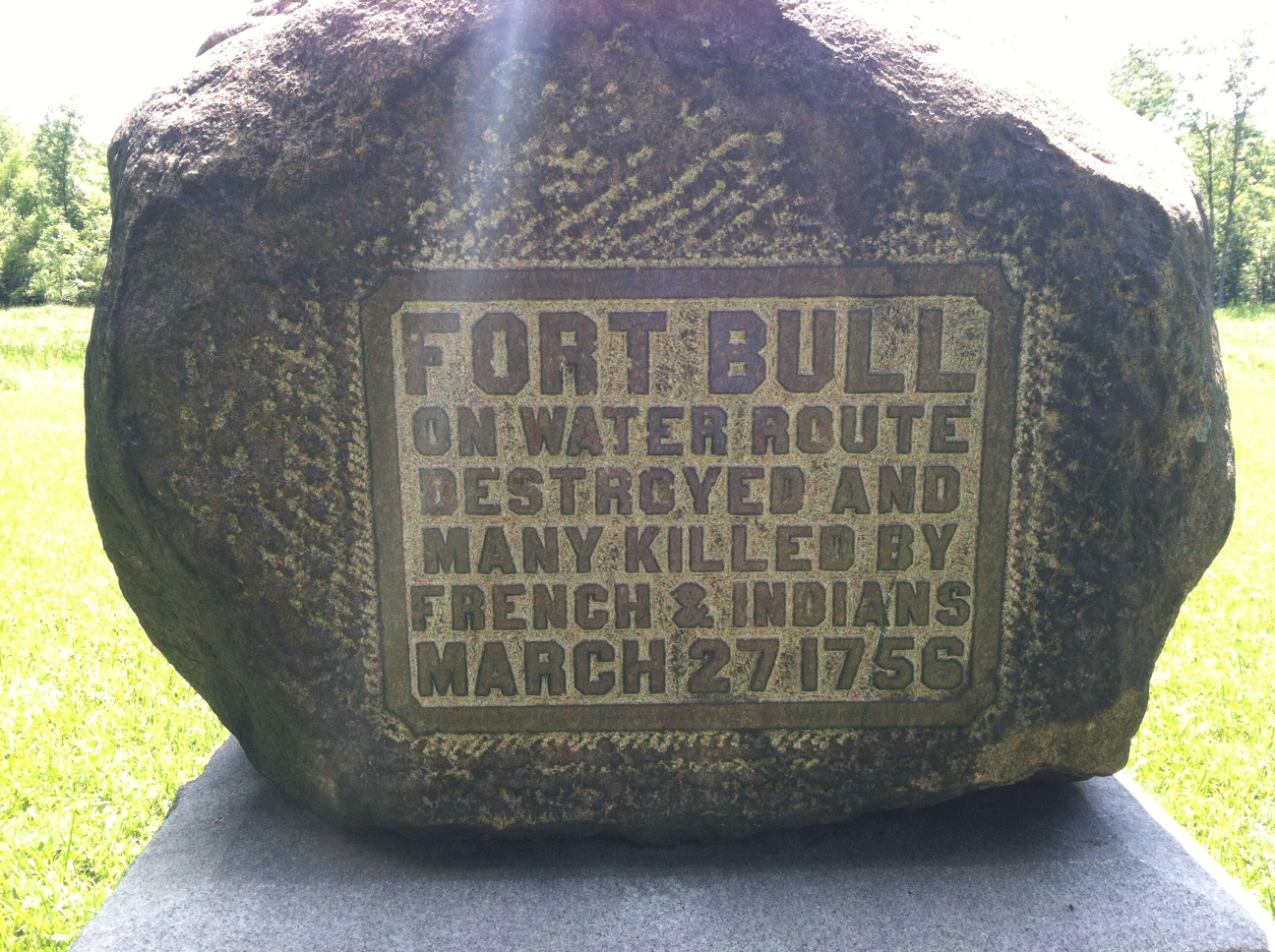 French and Indian War monument